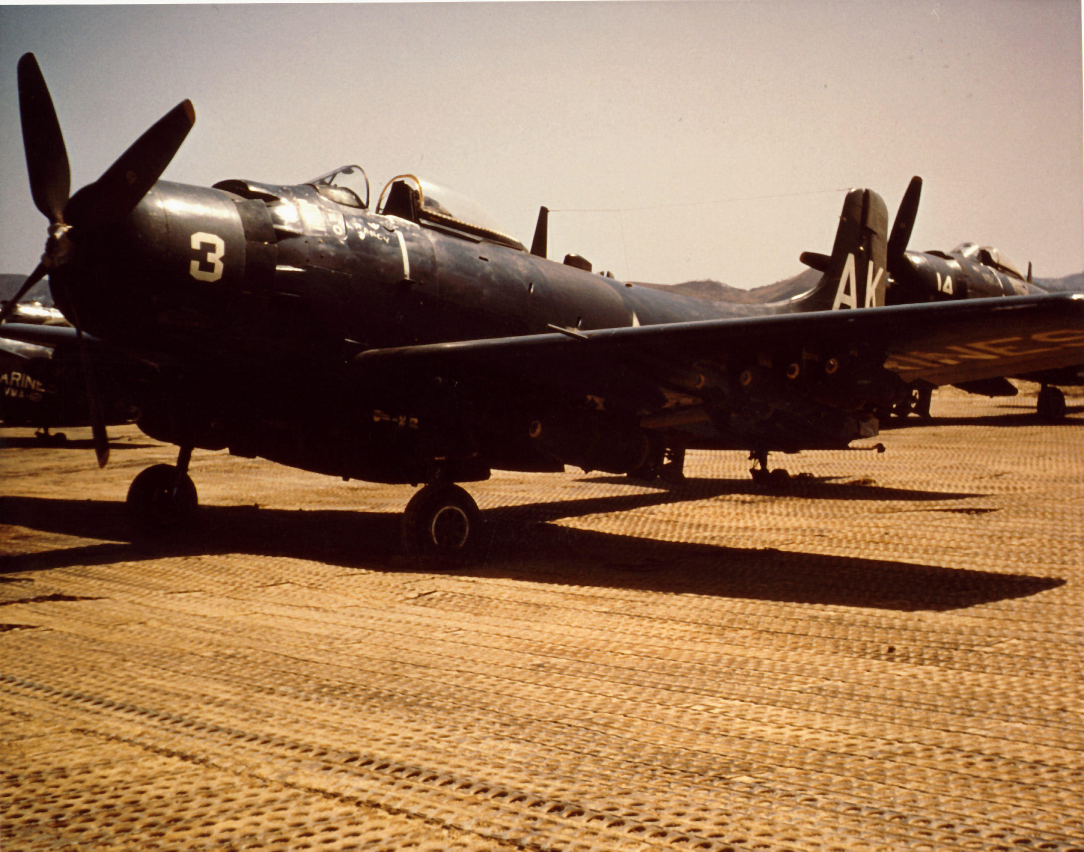 A U.S. Marine Corps Douglas AD-2 Skyraider from Marine attack squadron VMA-121 Green Knights, probably at K-6 airfield at Pyongtaek. VMA-121 flew its first Korean War mission on 19 October 1951, and the last on the day of the ceasefire in 1953.